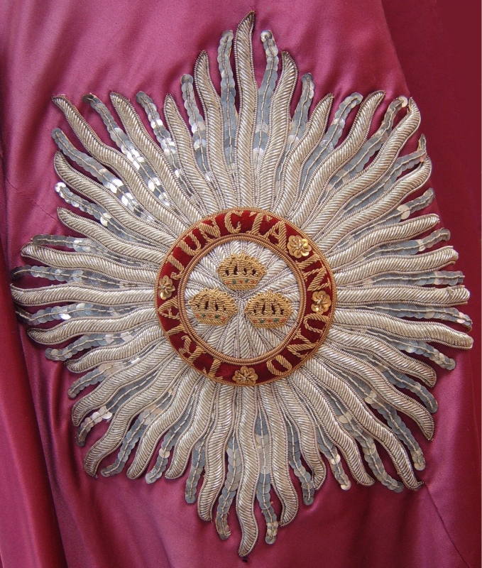 Badge of a Knight or Dame Grand Cross of the Most Honourable Order of the Bath